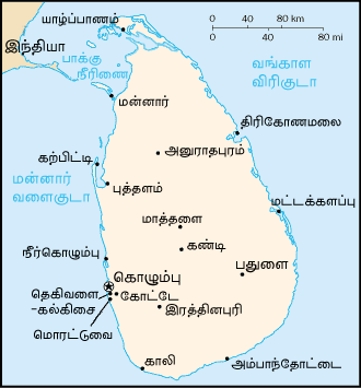 Map in Tamil of Sri Lanka